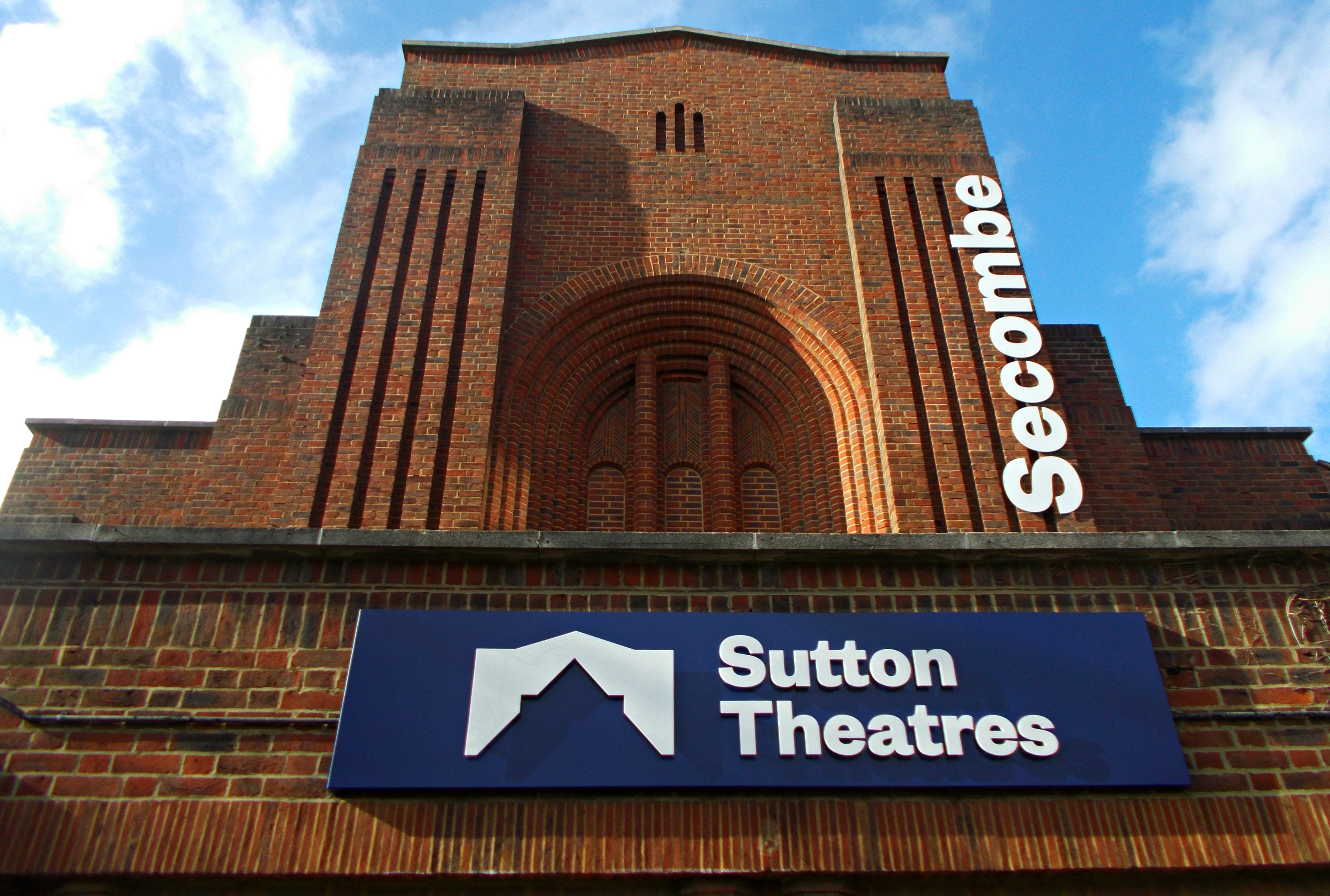 Built as a Christian Science church in the 1930s, this imposing art deco style building was converted to use as a theatre in 1983/4. It was opened by Sir Harry Secombe, who was a long time Sutton resident, actually living in the same road as the theatre.